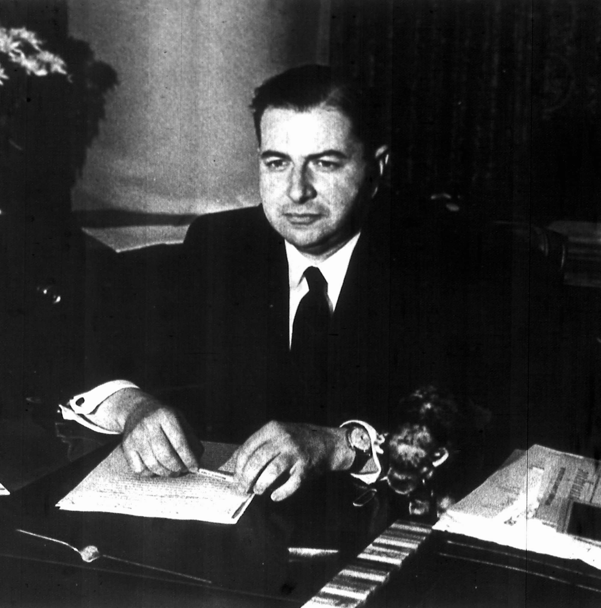 Martin Meyerson, President of the University at Buffalo, from the "President's Message" in the 1967 Buffalonian (student yearbook)